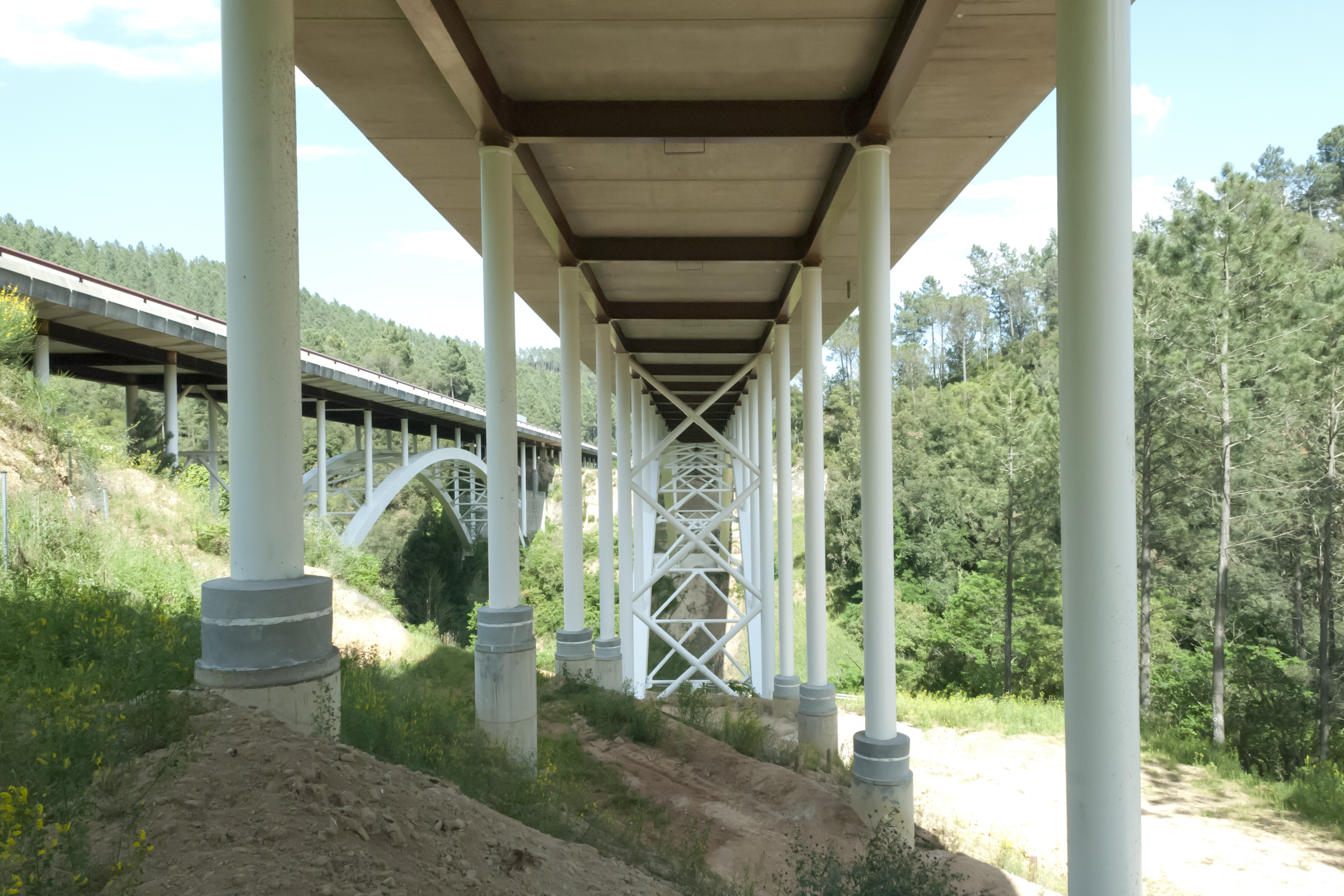 Image of Viaducte de les Foses (Catalonia).